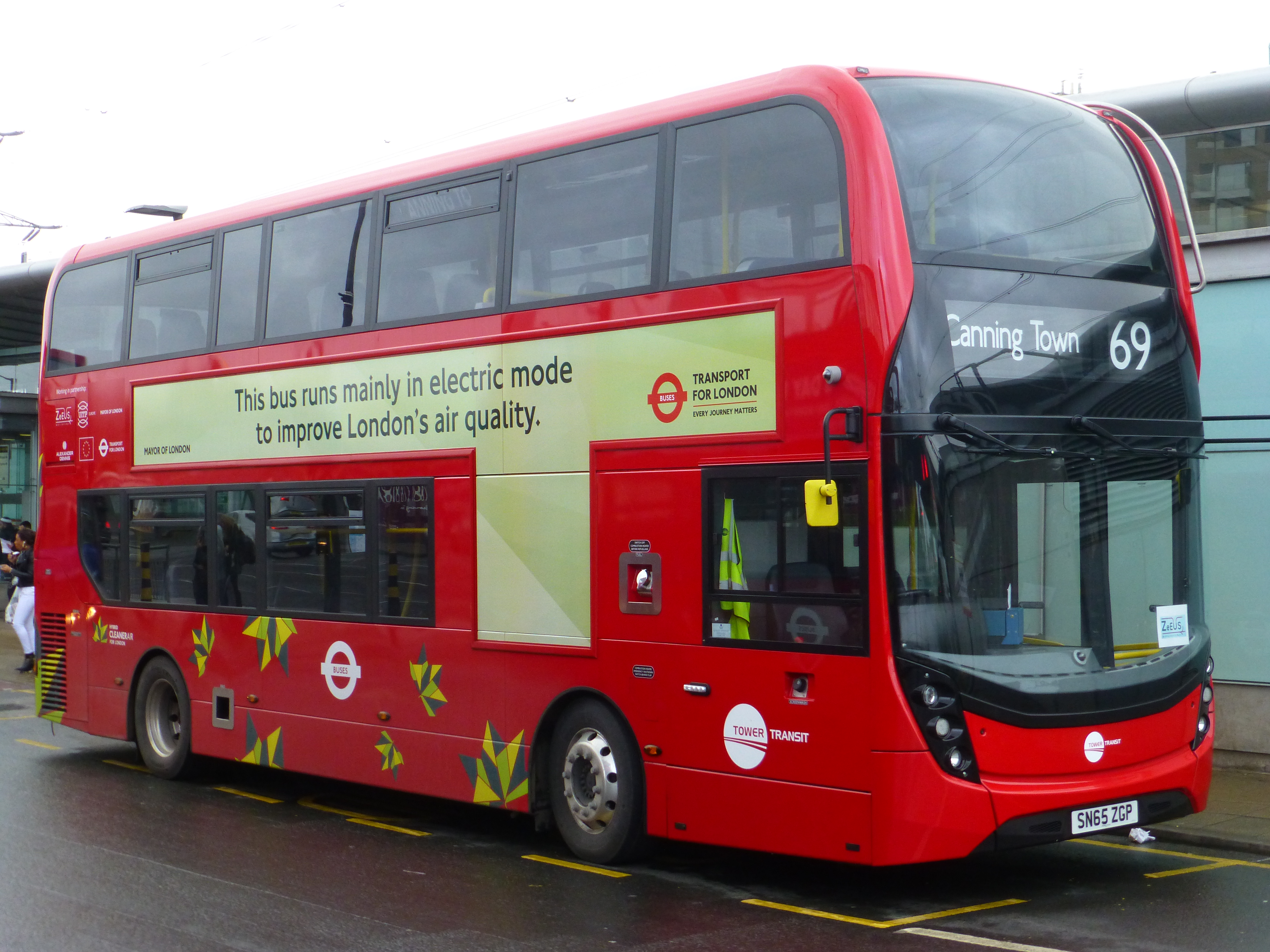 Alexander Dennis Enviro400 VE Virtual Electric Hybrid Bus laying over between journeys on London Buses route No.69 at Canning Town Bus station (but not on the induction charging pad as when this photograph was taken the charging pad was still being installed).